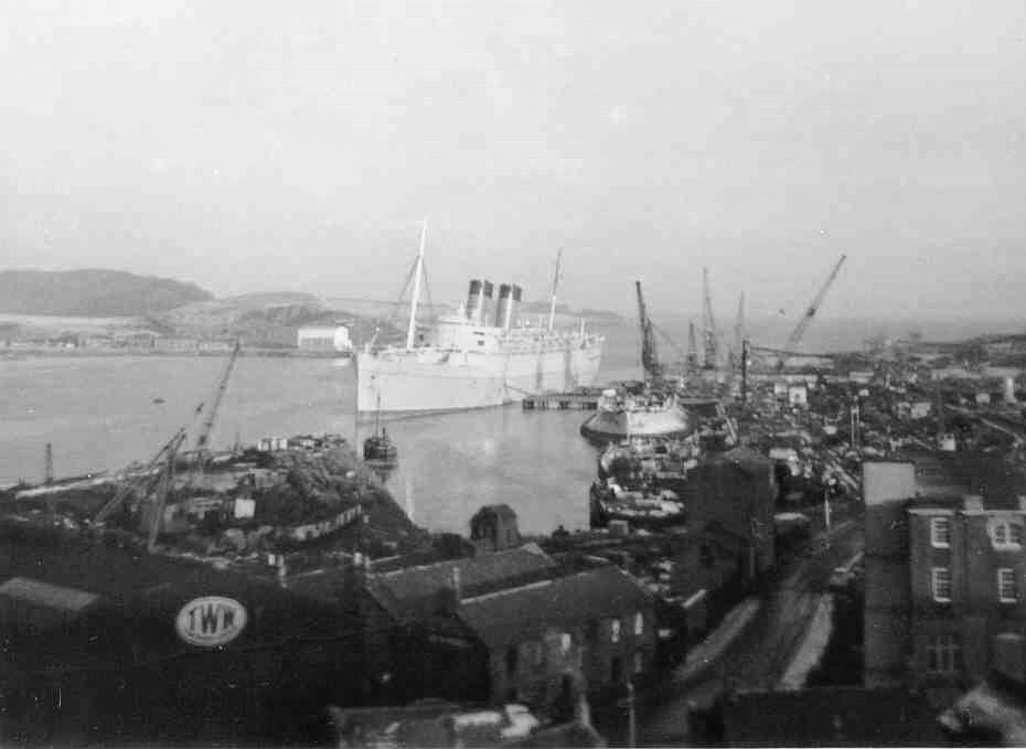 digital photograph of the Mauretania 2 at the breakers yard